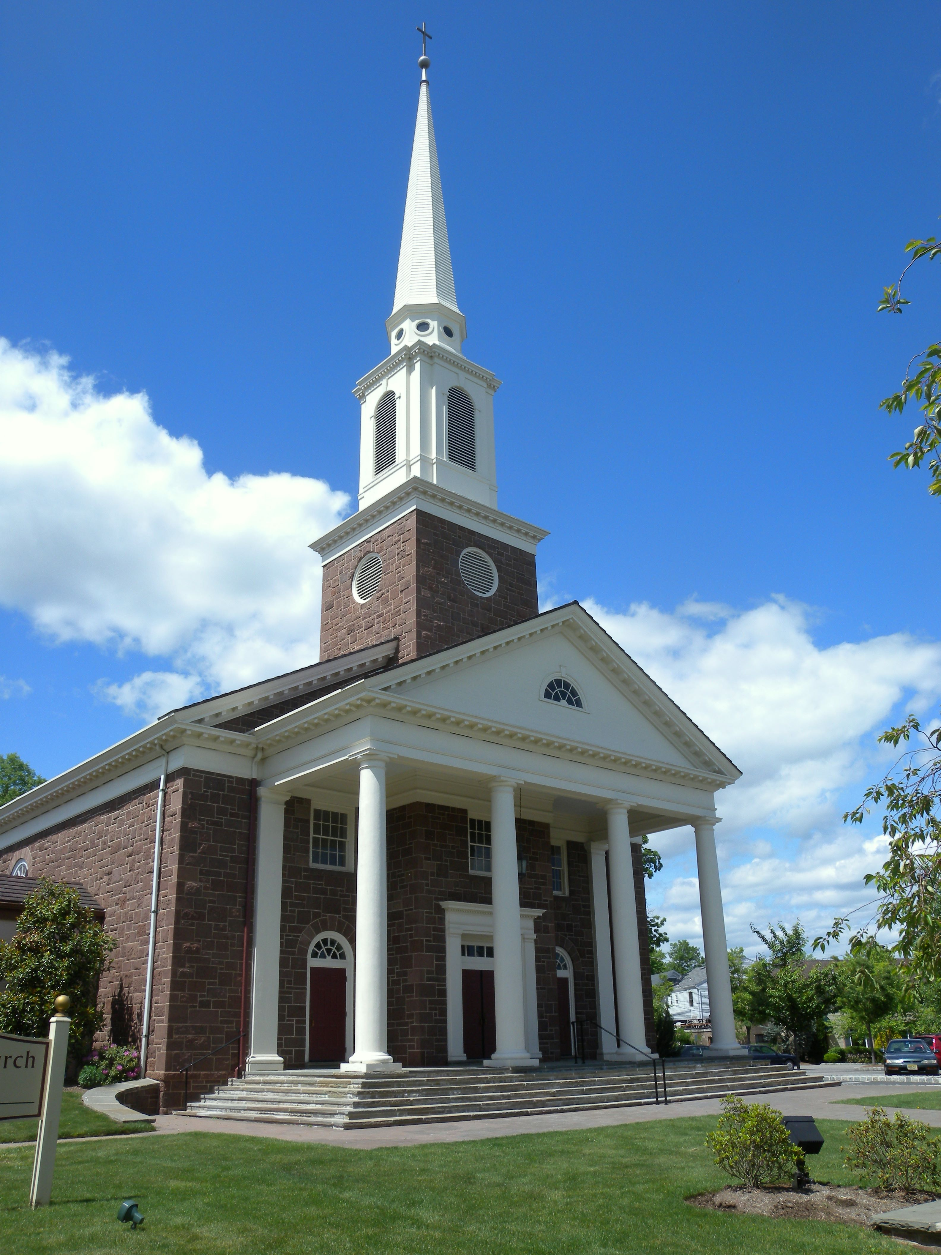 Looking north from Green Avenue at brick building of Presbyterian Church of Madison on a mostly sunny midday.